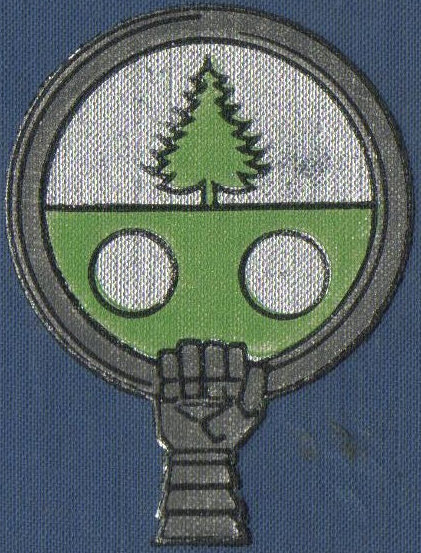 Coat of arms of the Swedish family von Fock (conifer and silver balls) in combination with the coat of arms of the German family Göring (armored hand holding a ring)